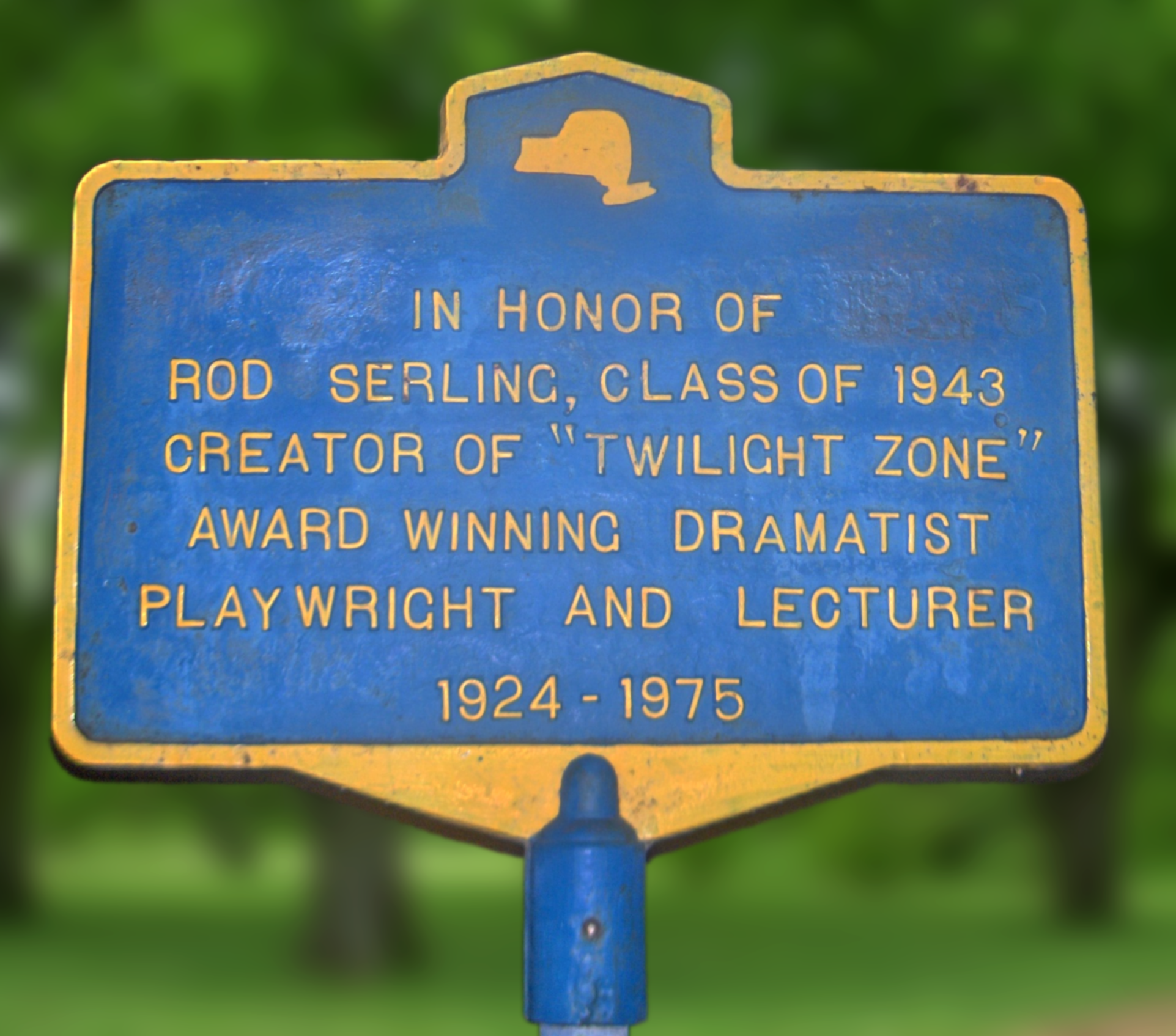 Memorial sign for Rod Serling, located on the grounds of Binghamton High School, Main Street between Front Street and Oak Street, Binghamton, New York, United States. This sign sometimes faces the street and at other times gets turned perpendicular to the street.